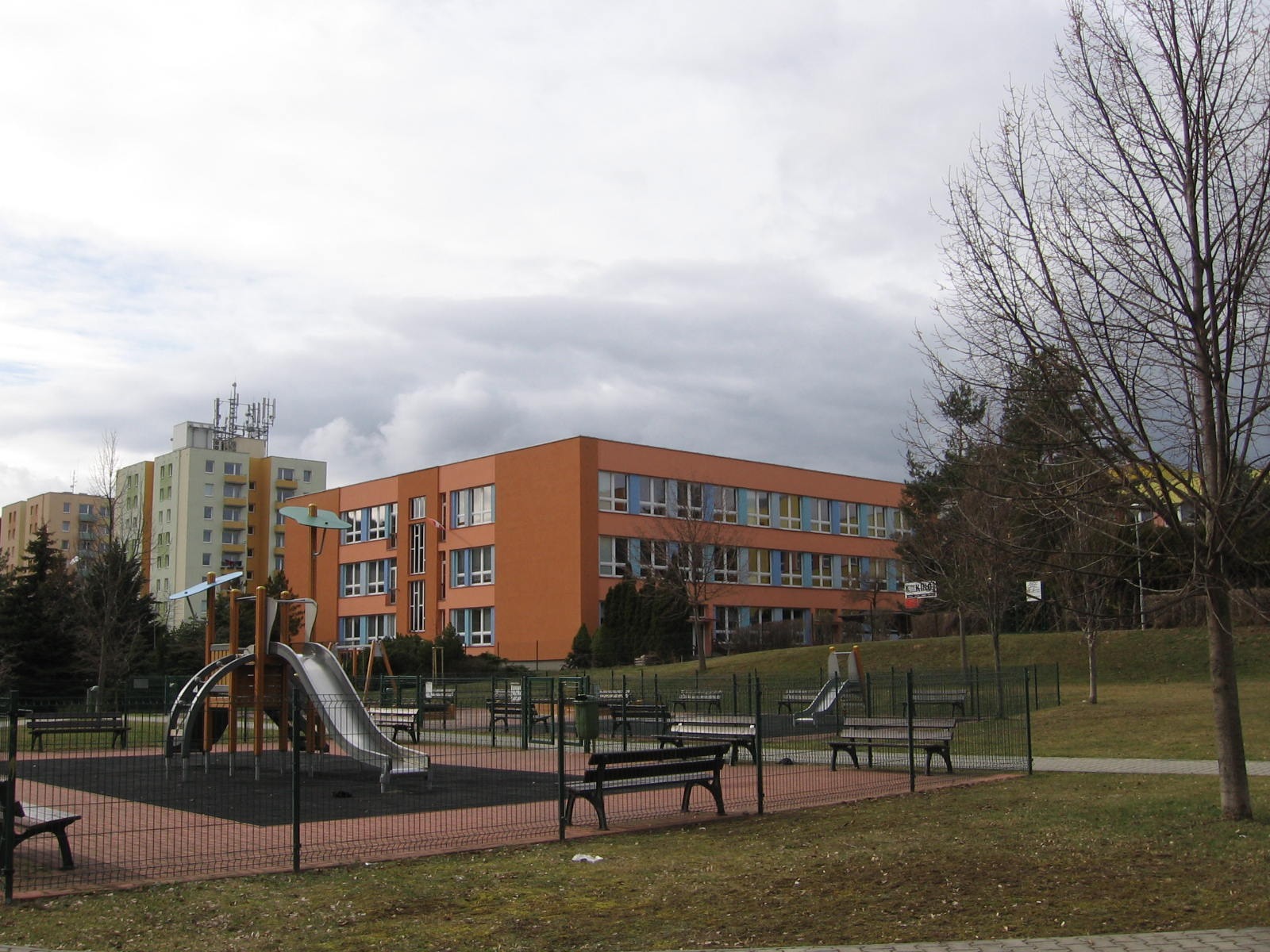 Vyhlídková stezka kolem Prachatic